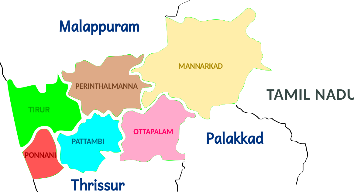 The proposed Valluvanad district is an area that covers the Taluks of Tirur, Perinthalmanna, Mannarkad, Ottapalam, Pattambi, and Ponnani in the Indian state of Kerala